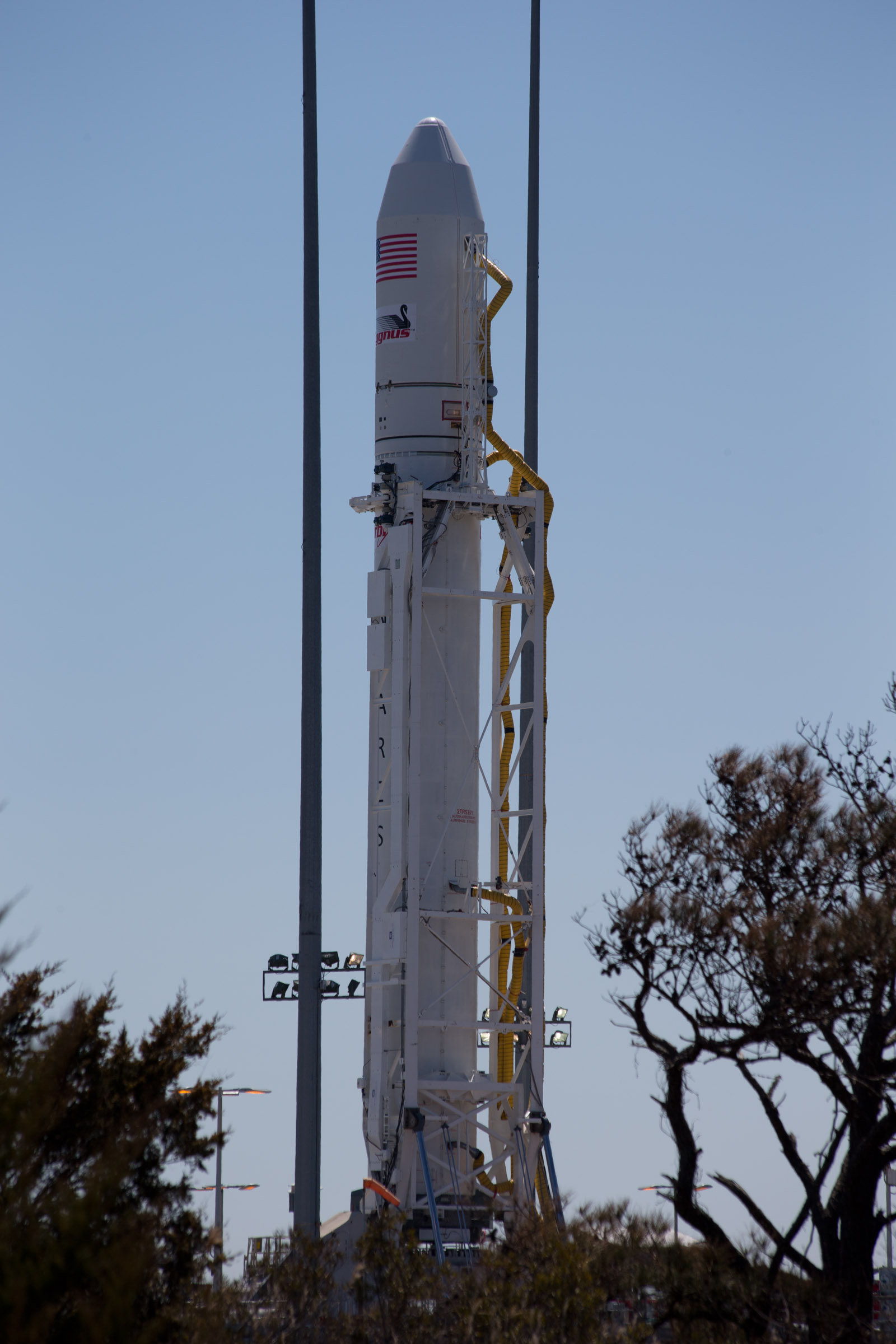 Orbital Sciences Corp. completed roll-out of the first fully-integrated Antares rocket to the Mid-Atlantic Regional Spaceport Pad-0A at NASA's Wallops Flight Facility on Saturday, April 6. Orbital has confirmed an April 17 target launch date for the rocket test flight with a planned liftoff of 5 p.m. EDT. Orbital is testing the Antares rocket under NASA's Commercial Orbital Transportation Services (COTS) program. NASA initiatives like COTS are helping develop a robust U.S. commercial space transportation industry with the goal of achieving safe, reliable and cost-effective transportation to and from the space station and low-Earth orbit.